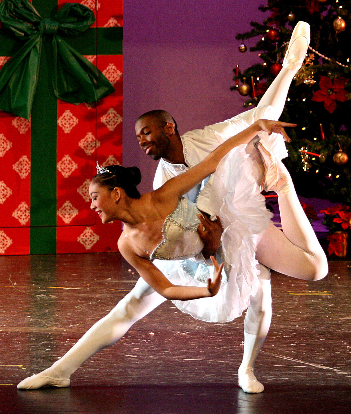 Daria L and Jeff perform Snow Pas de Deux in a version of the The Nutcracker, a well-known classical ballet. This image was derived from an original photograph by cropping and adjusting brightness/contrast.